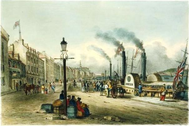 Steam Boat Wharf, 1843label QS:Len,"Steam Boat Wharf, 1843"label QS:Lfr,"Le quai des vapeurs, 1843"